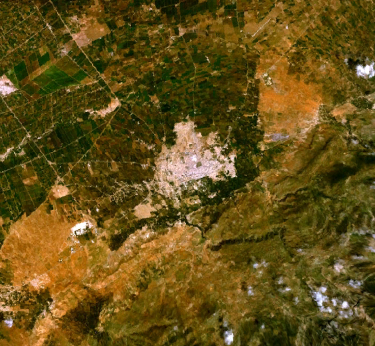 Beni Mellal, Morocco.